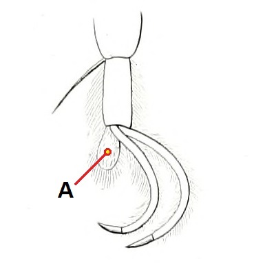 Title: Anatomie, physiologie et histoire naturelle des galéodes Year: 1861 (1860s) Authors: Dufour, Léon Subjects: Galeodidae Publisher: Paris : Impr. Impériale Text Appearing Before Image: ACADEMIE DES SCIENCES (SavantsEtranger, TOME XI'// Text Appearing After Image: L Du four ili'L Âiiatonue des Galéodes PL • jânnedouaze y. lUmond ImpCrue de h Viet'lb Estrapade, i5, Paru